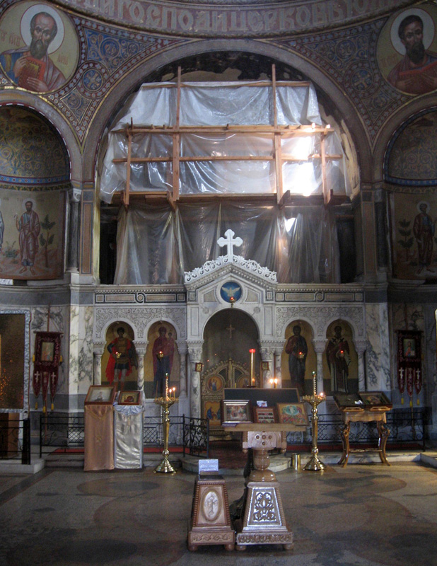 St. Nicolas Church in Sevastopol (for Russian warriors fallen in Crimean war). Completed in 1870, architect A. A. Avdeyev.